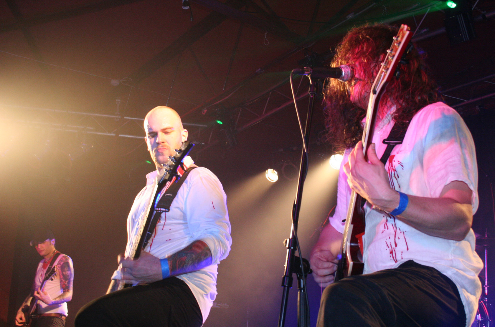 Caliban, performing live in Black Friday